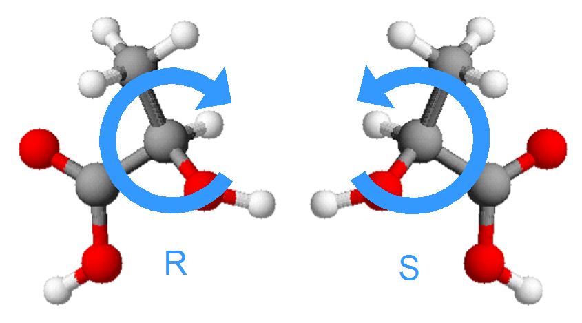 Cahn-Ingold-Prelog (CIP) rule application example on lactic acid enantiomers drawn by Paginazero